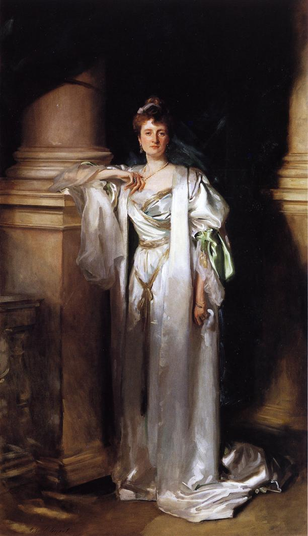 Lady Margaret Spicer John Singer Sargent -- American painter c. 1906 Private collection Oil on canvas 266.7 x 149.8 cm (105 x 59 in.) Inscribed: (Lower left:) John S. Sargent jpg: The Athenaeum